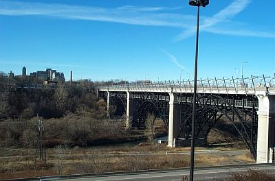 Prince Edward Viaduct, Toronto. Photo by Montrealais.